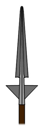 The head of a Bohemian earspoon, showing the spearhead and the protruding "ears" of the guard, as well as a small portion of the handle.